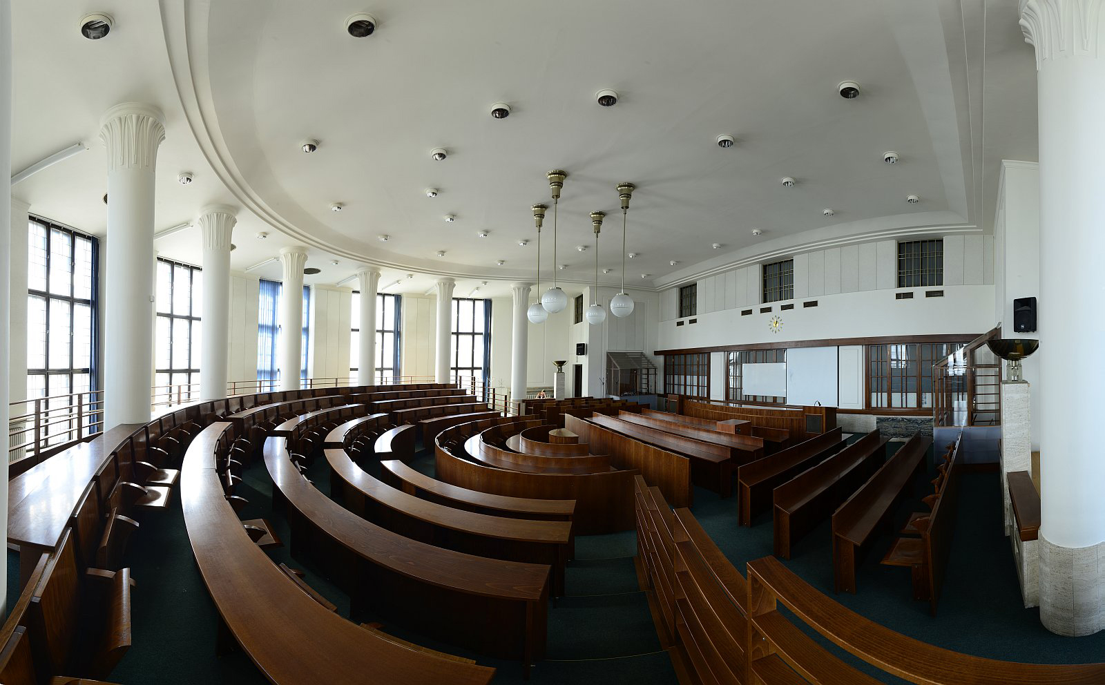 Auditorium maximum